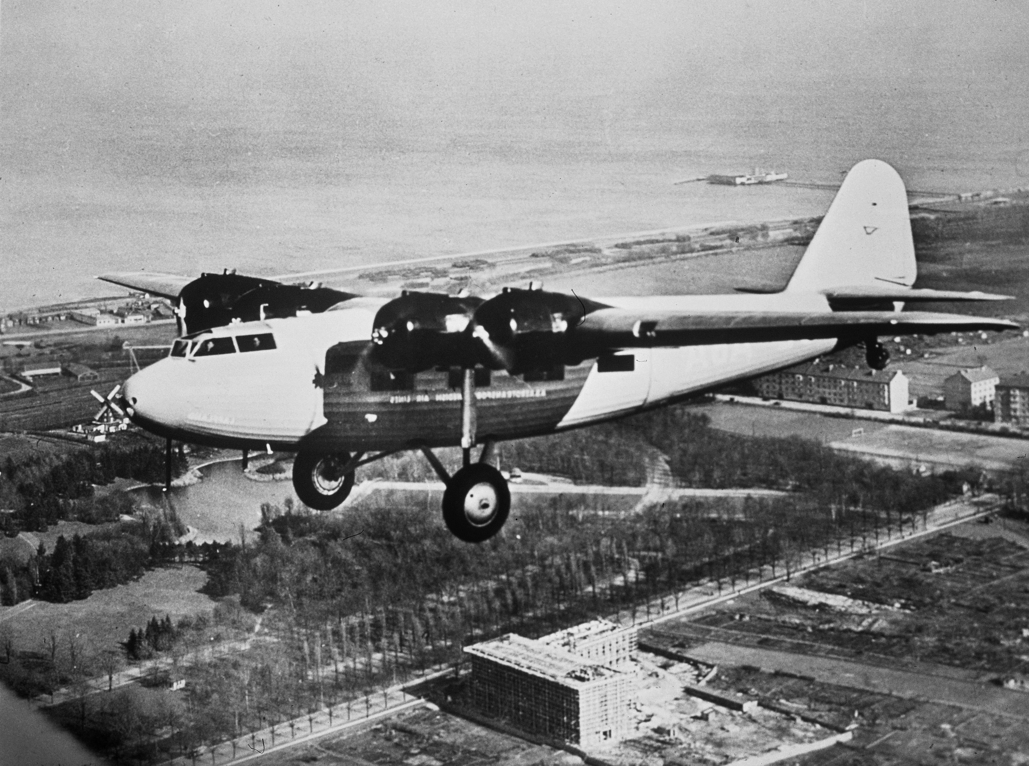 SAS Fokker F.XXII (SE-ABA), in the air 1930s